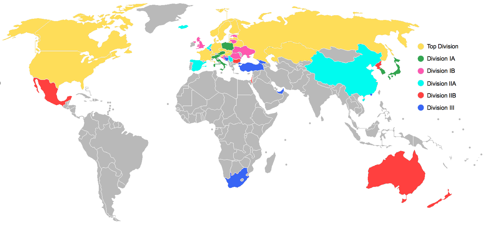 Nations participating in the 2016 IIHF World Championship, by Divisions